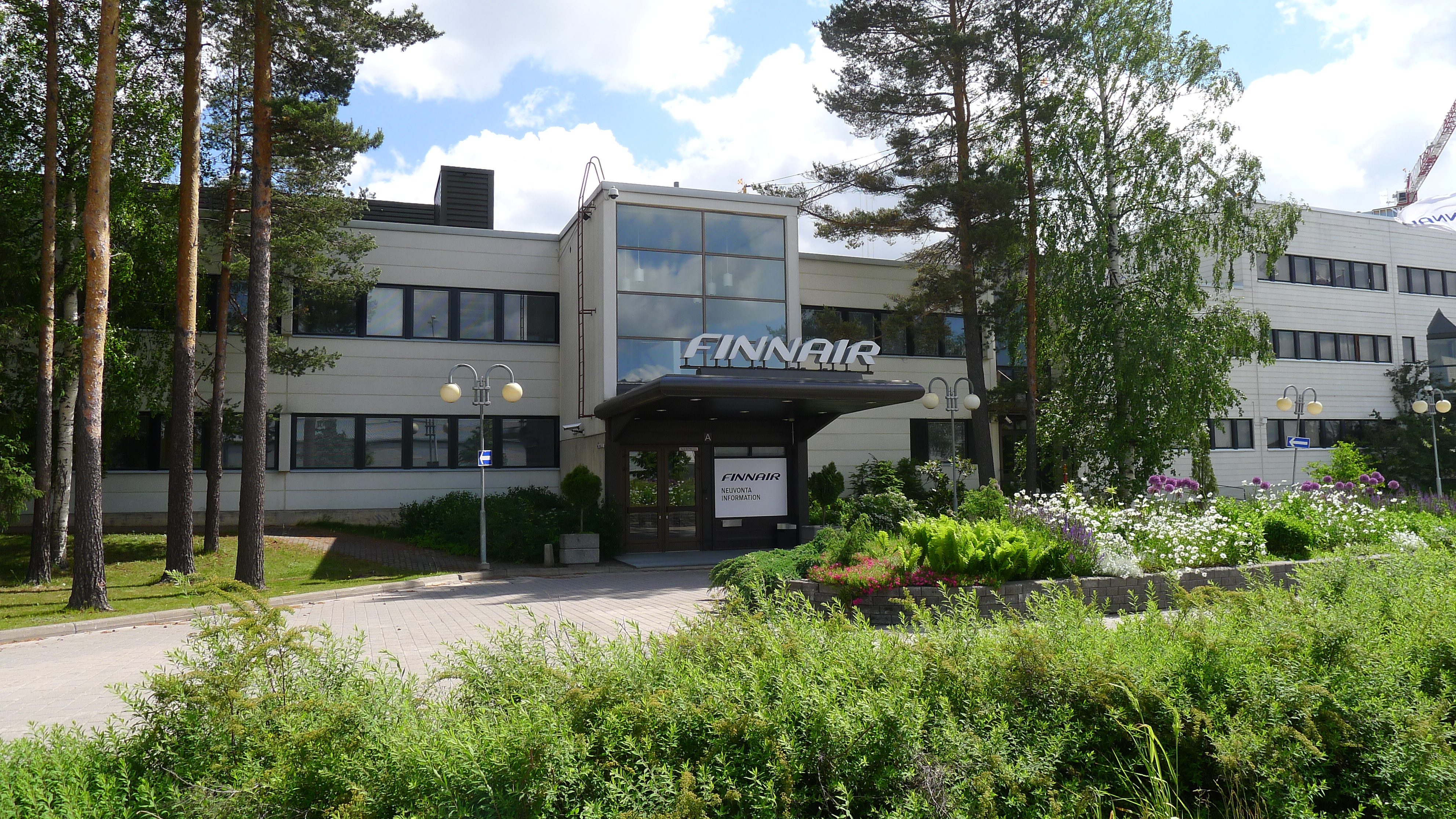 Finnair former head office - Tiotie 11